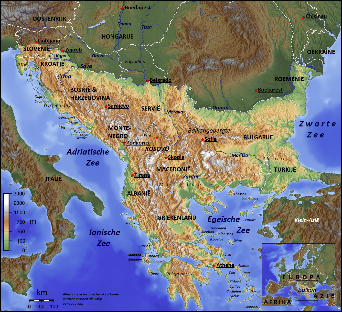 Topographic map of the Balkans (Dutch version)